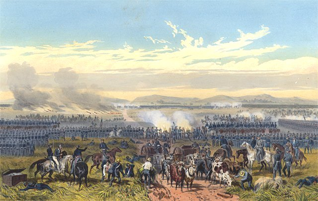 Battle of Palo Alto during the Mexican-American War, painting by Carl Nebel.